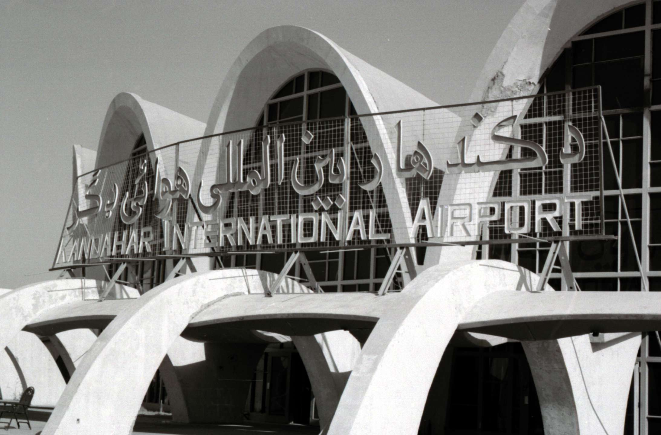 Kandahar International Airport passenger terminal (September 2004). Photo by Peter Rimar.